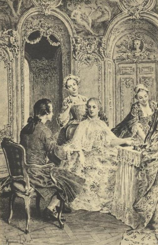 Rousseau With Madame Dupin; Illustrations; The Confessions of J.J. Rousseau ; Aldus